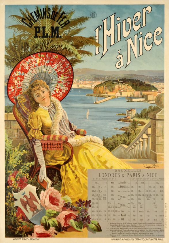 Poster of the PLM railway company, France: l'hiver à Nice.